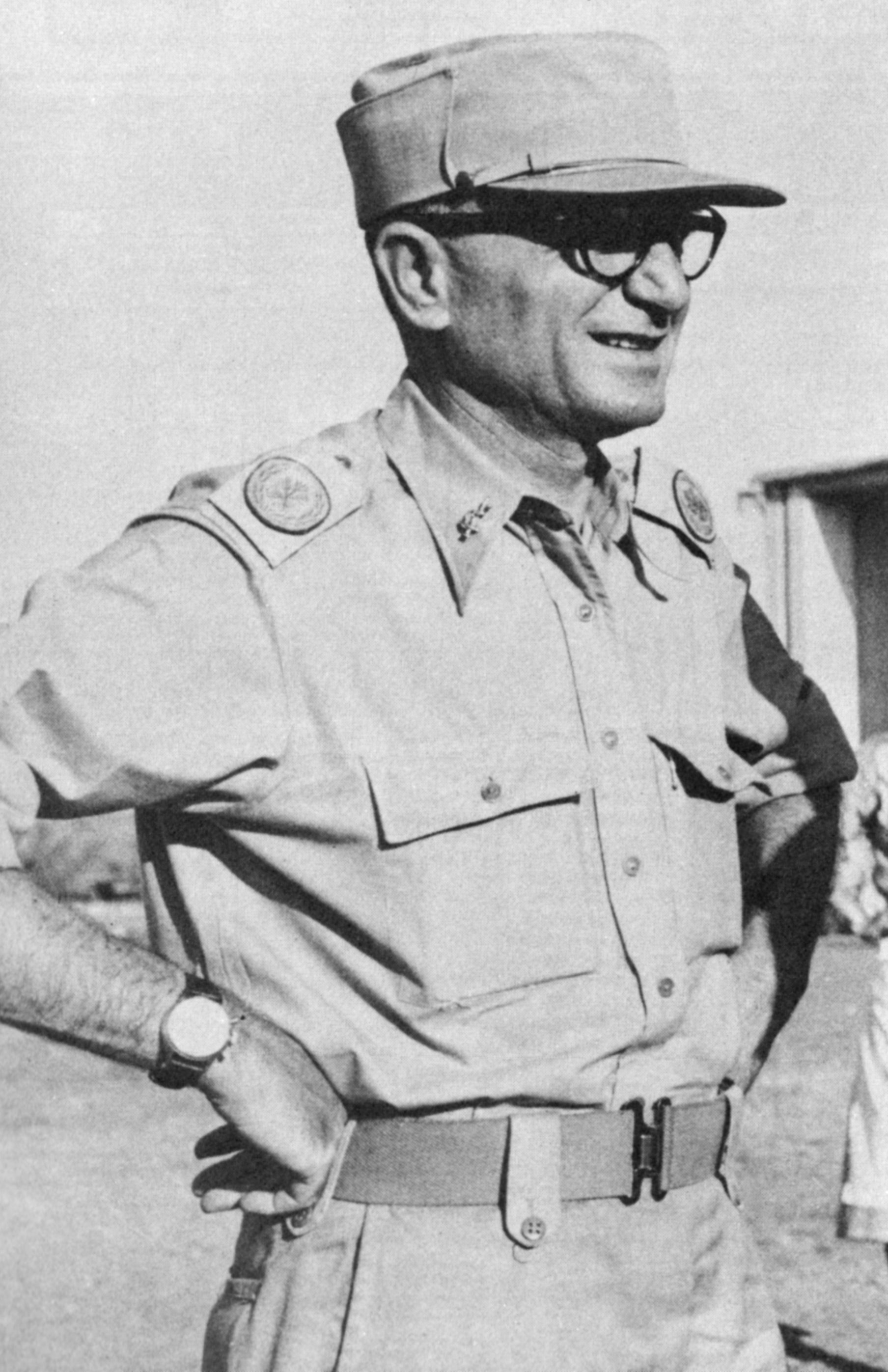 Ya'akov Dori (Dostrovsky), the first Chief of Staff of the Israel Defense Forces. This work or image is now in the public domain because its term of copyright has expired in Israel. According to Israel's copyright statute from 2007 (translation), a work is released to the public domain on 1 January of the 71st year after the author's death (paragraph 38 of the 2007 statute) with the following exceptions: A photograph taken on 24 May 2008 or earlier — the old British Mandate act applies, i.e. on 1 January of the 51st year after the creation of the photograph (paragraph 78(i) of the 2007 statute, and paragraph 21 of the old British Mandate act). If the copyrights are owned by the State, not acquired from a private person, and there is no special agreement between the State and the author — on 1 January of the 51st year after the creation of the work (paragraphs 36 and 42 in the 2007 statute). See also category: PD Israel & British Mandate. .